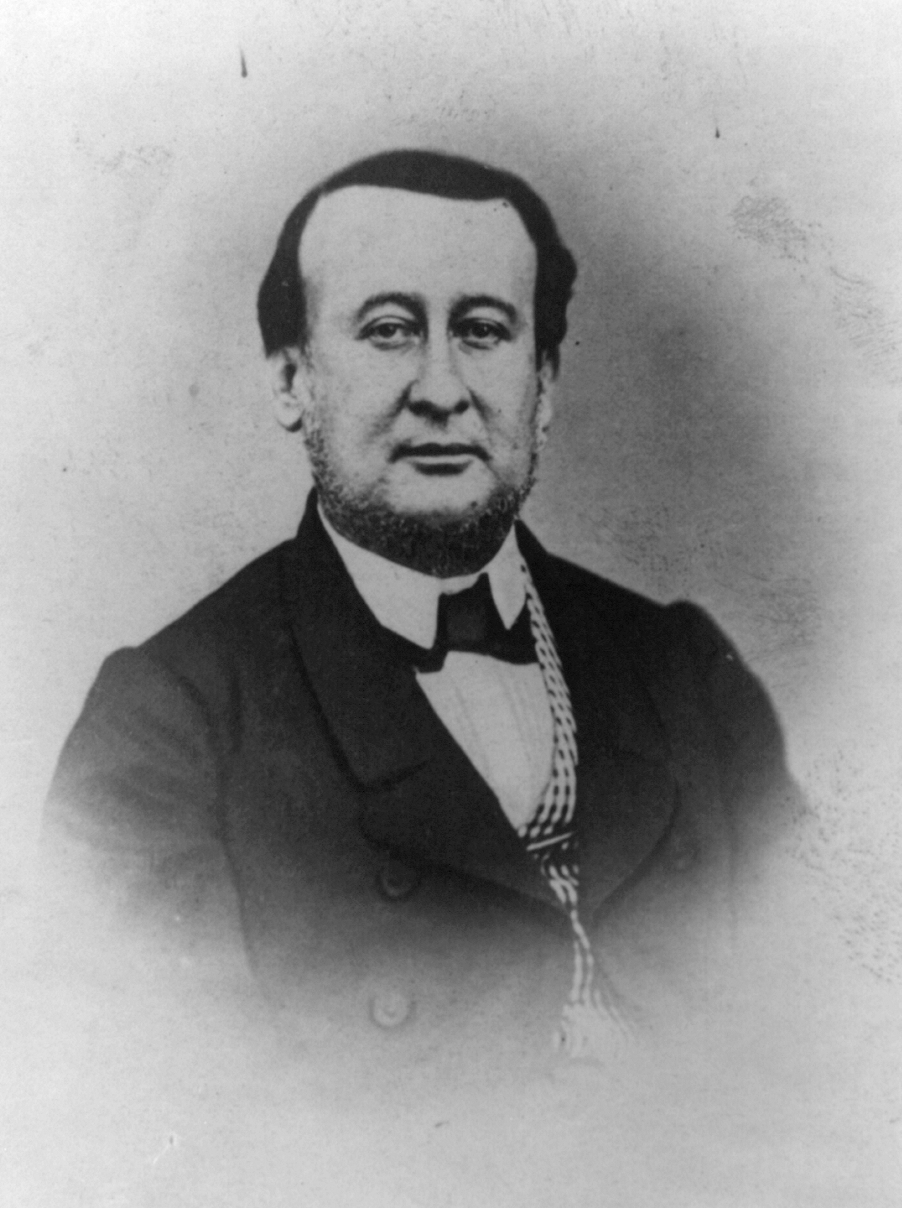 General Manuel Doblado, Mexican liberal.